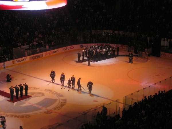 Vancouver Canucks pregame ceremony at GM Place against the Halifax Mooseheads on April 3rd, 2007.